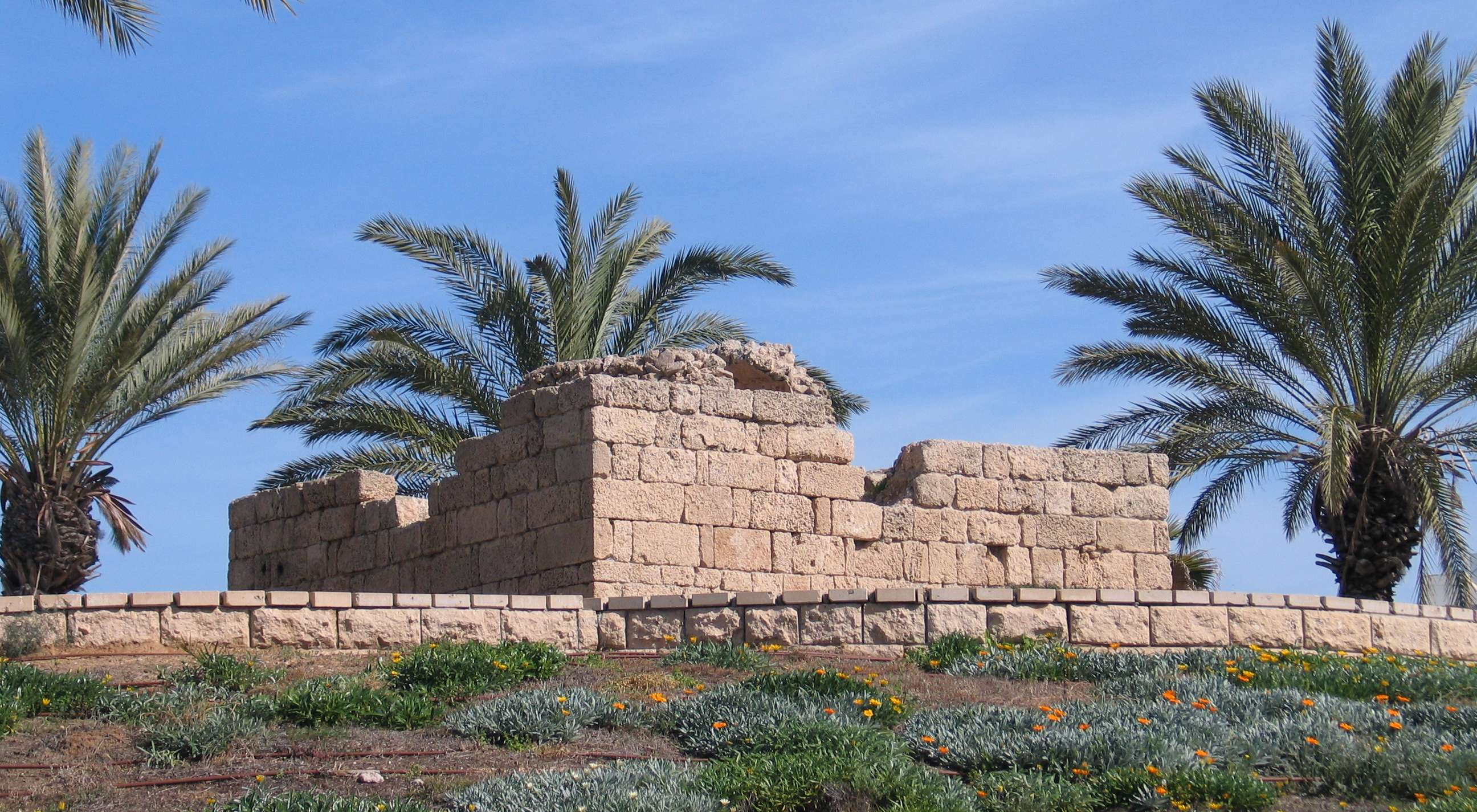 Lookout tower east of Ashdod-Yam, Ashdod, Israel.